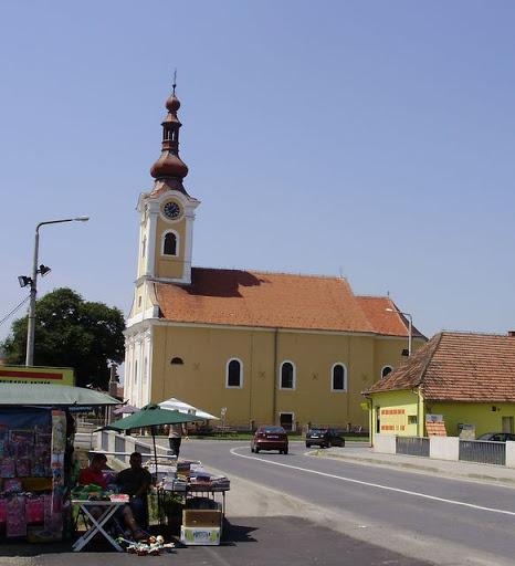 Church in Croatia